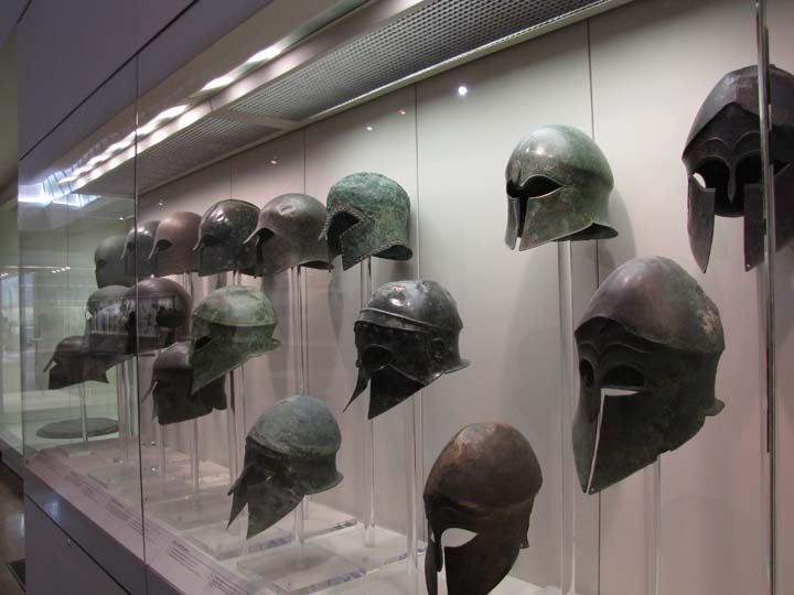 Corinthian bronze helmets